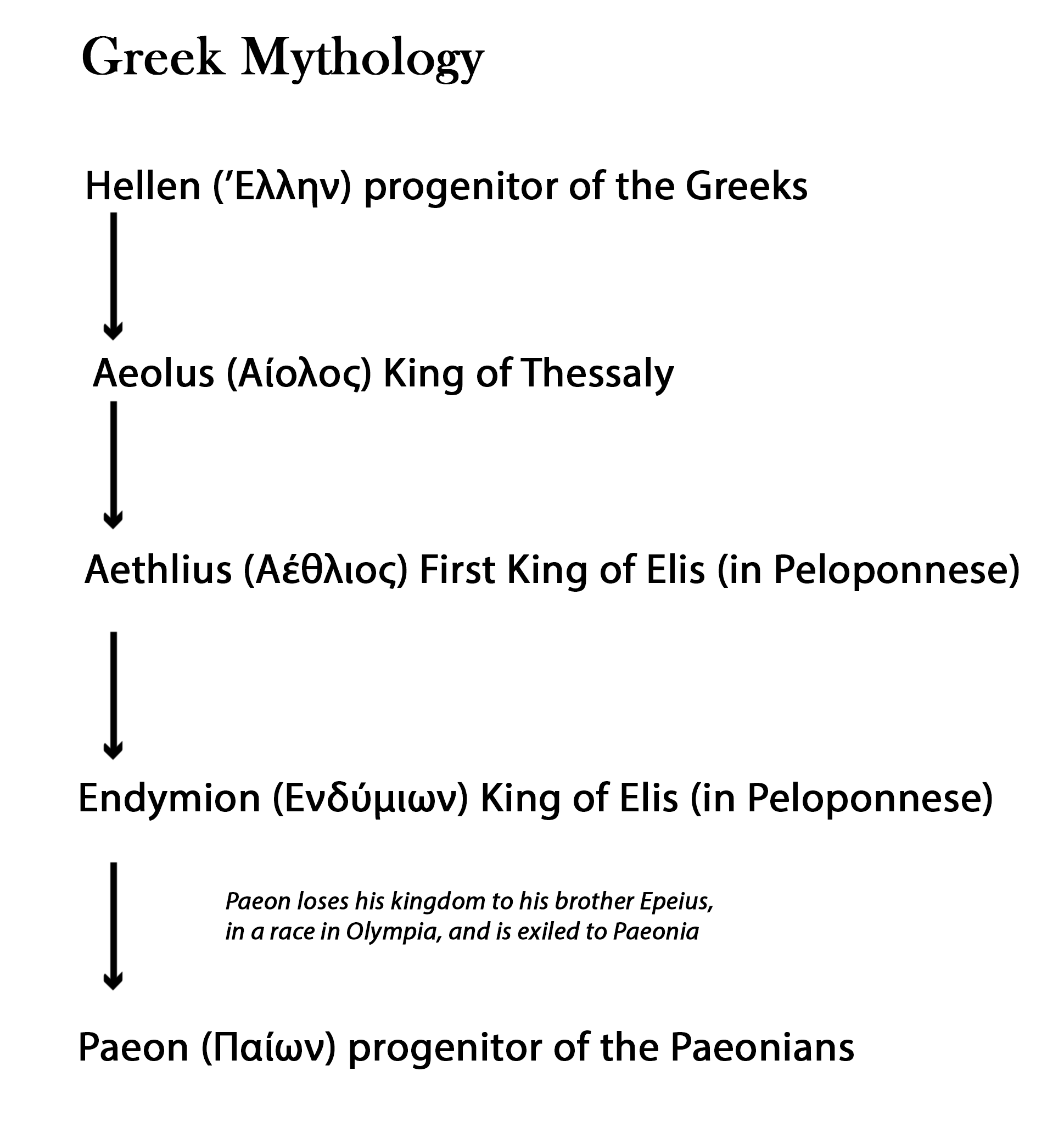 Chart of Paeonia's founder Paeon, Greek Mythology